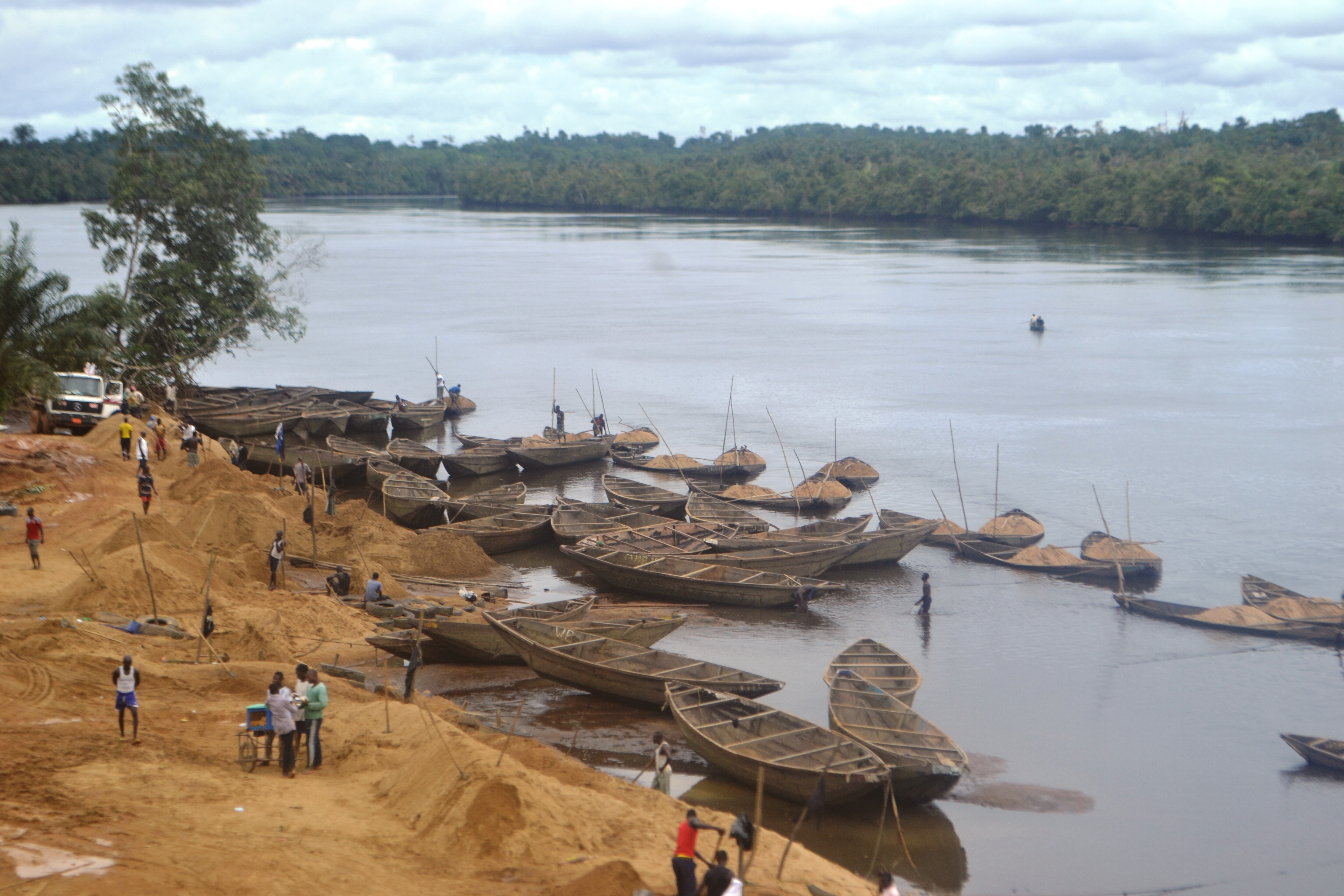 Poeple working at a sand quarry in Cameroon, removing sand from the river This is an image of "African people at work" from Cameroon